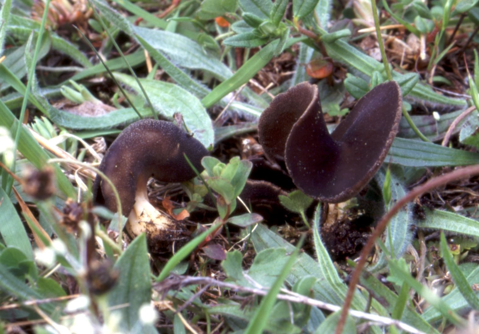 Helvella queletii Idkerberget, Dalarna, Sweden For more information about this, see the observation page at Mushroom Observer.